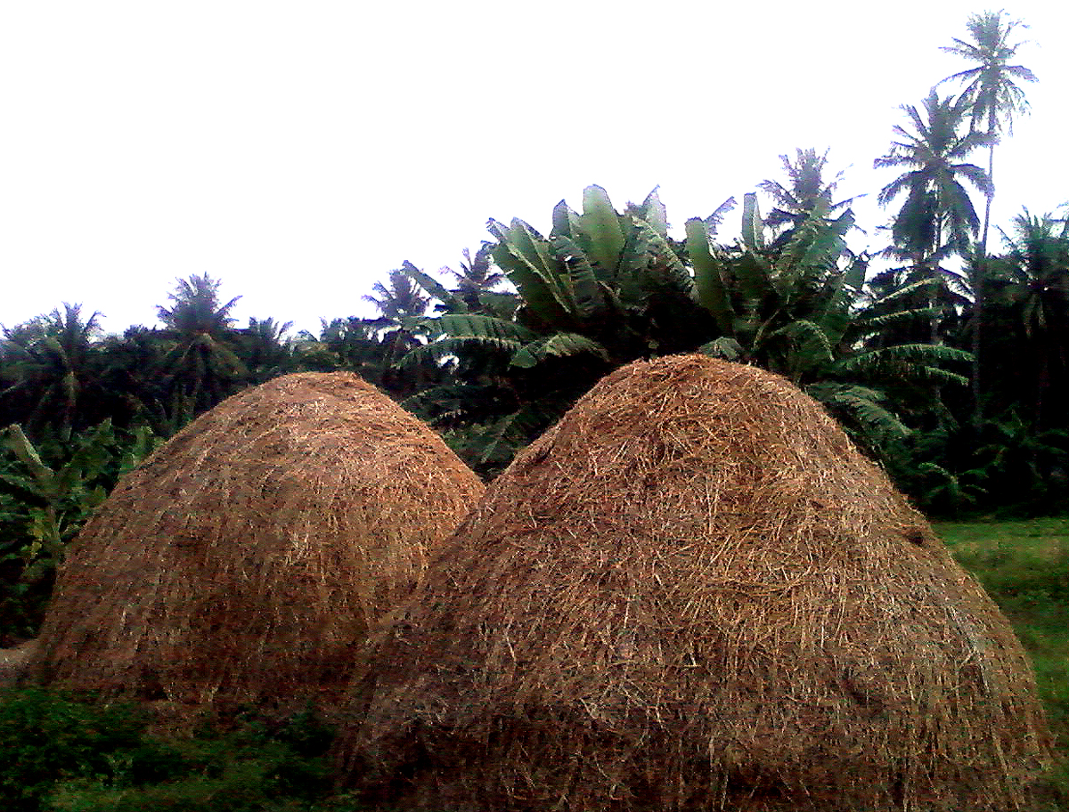 Hay at Rajula Tallavalasa Village in Visakhapatnam district, India